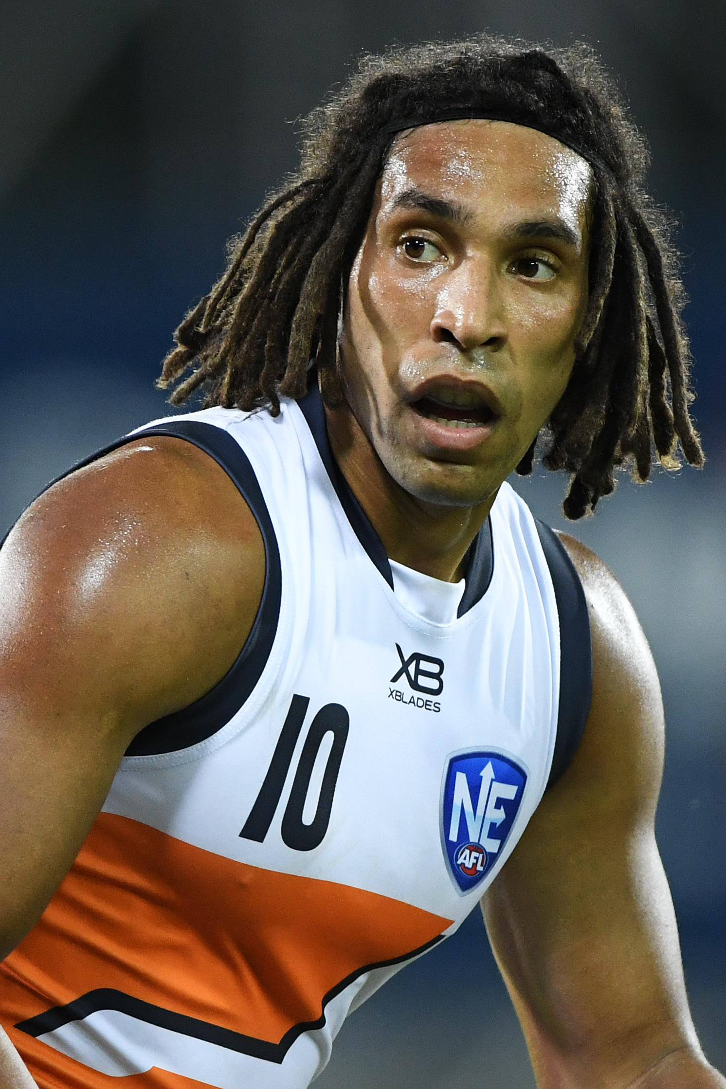 Aiden Bonar of Greater Western Sydney during the 2019 NEAFL round 15 match between NT Thunder and Greater Western Sydney at TIO Stadium on Saturday, 13 July 2019 in Darwin, Australia.